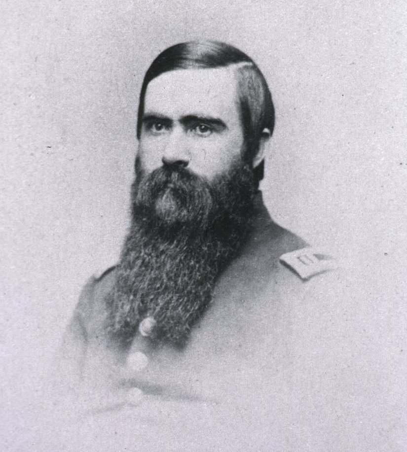 Roberts Bartholow